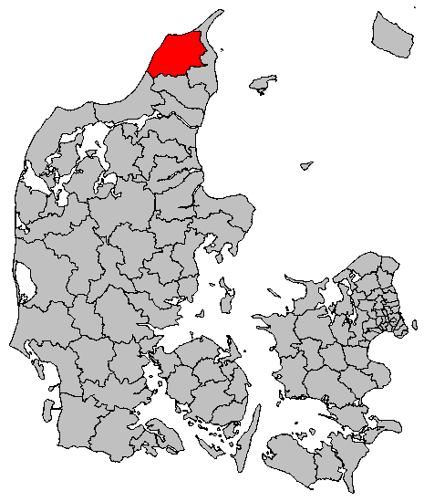 Location maps of Danish municipalities (2007)